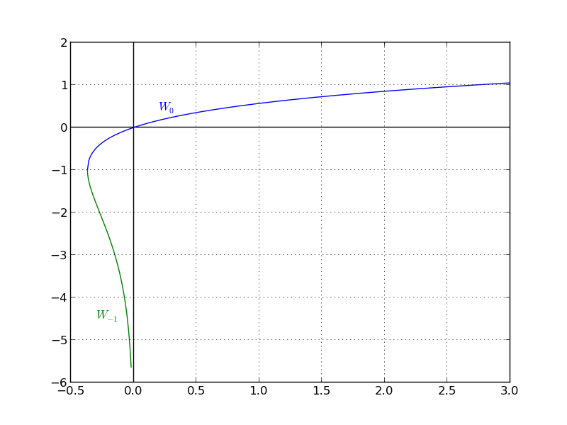 The two real branches W 0 {\displaystyle W_{0 and W − 1 {\displaystyle W_{-1 of the Lambert W function.